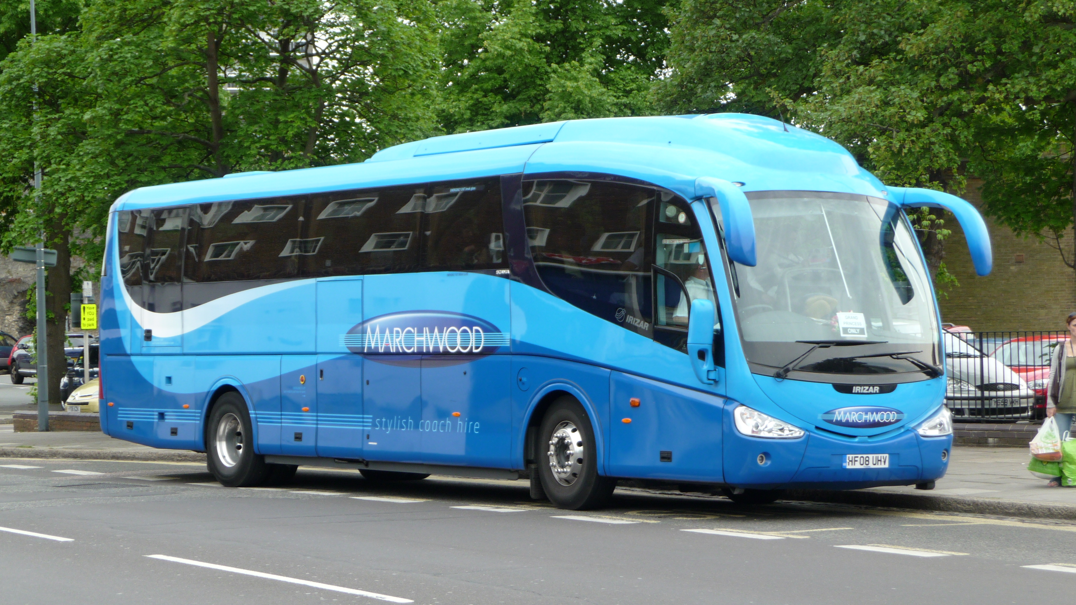 Marchwood Motorways 056 (HF08 UHV), an Irizar PB bodied Scania K340EB4, in Castle Way, Southampton on "Cruise Crews" work.